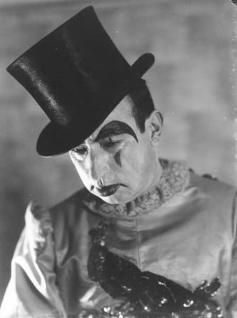 Álvaro Escobar- actor argentino